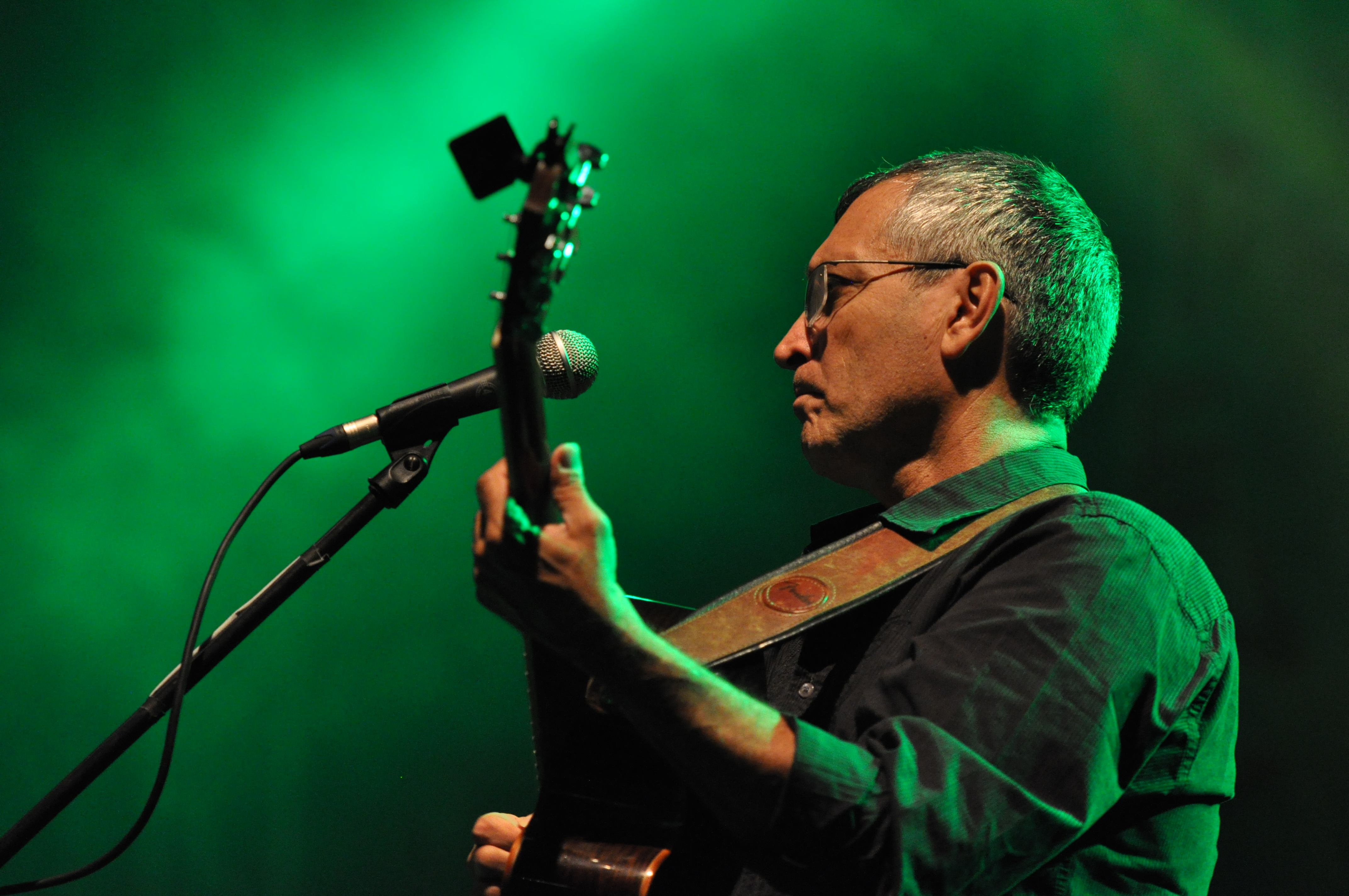 Noa (Achinoam Nini) (Israel), appearance at the 39th music festival "Bardentreffen" 2014 in Nuremberg, Germany, Hauptmarkt stage